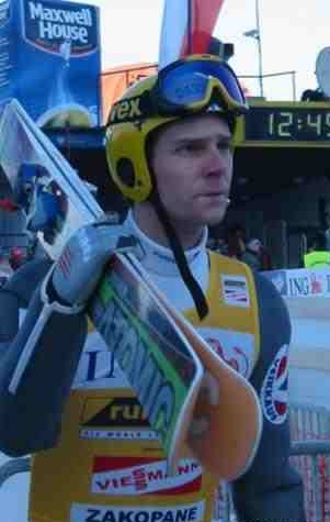 FIS Ski Jumping World Cup in Zakopane, 2003 Janne Ahonen